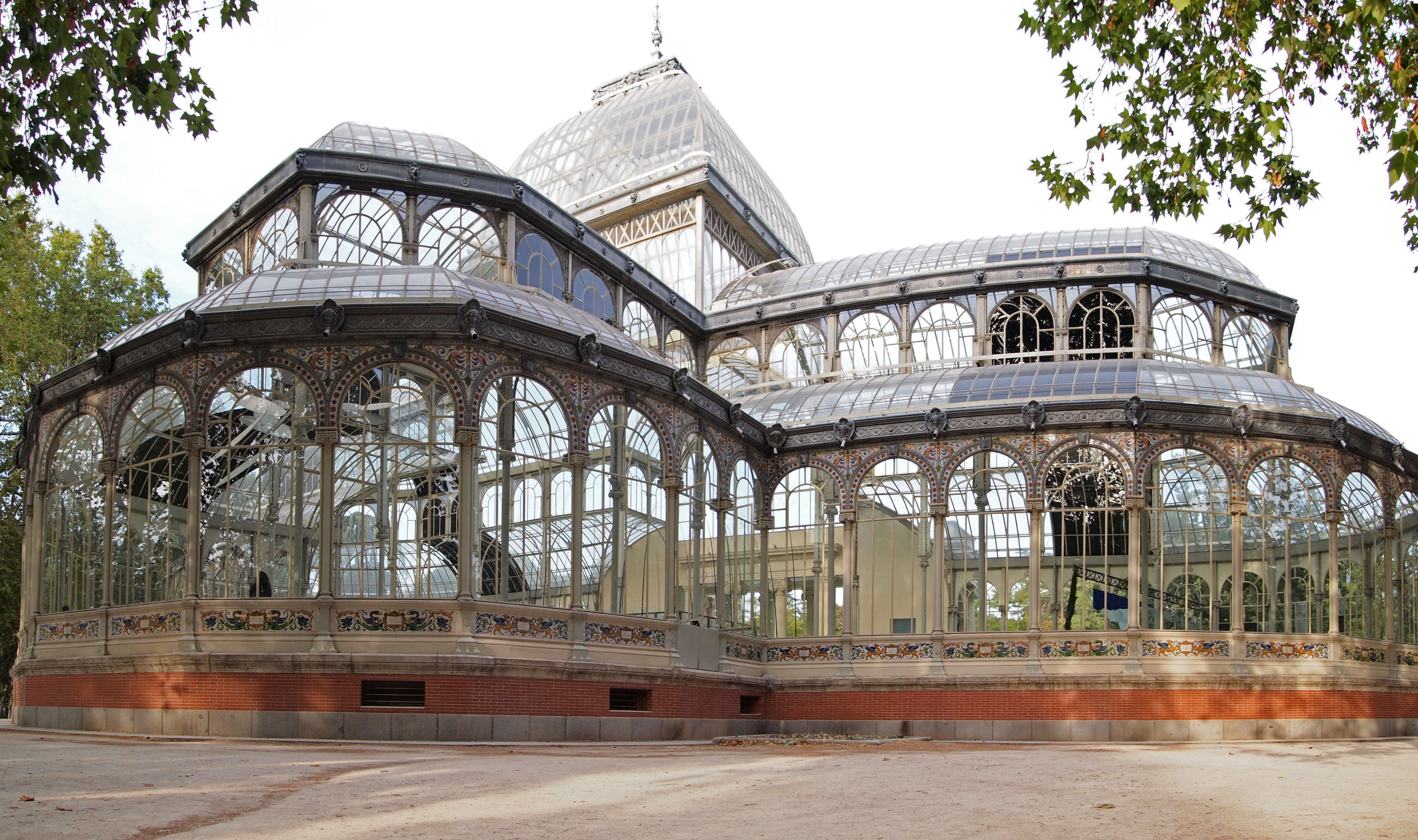 Palacio de Cristal in Retiro park, Madrid. This photograph was taken with an Olympus E-PL1